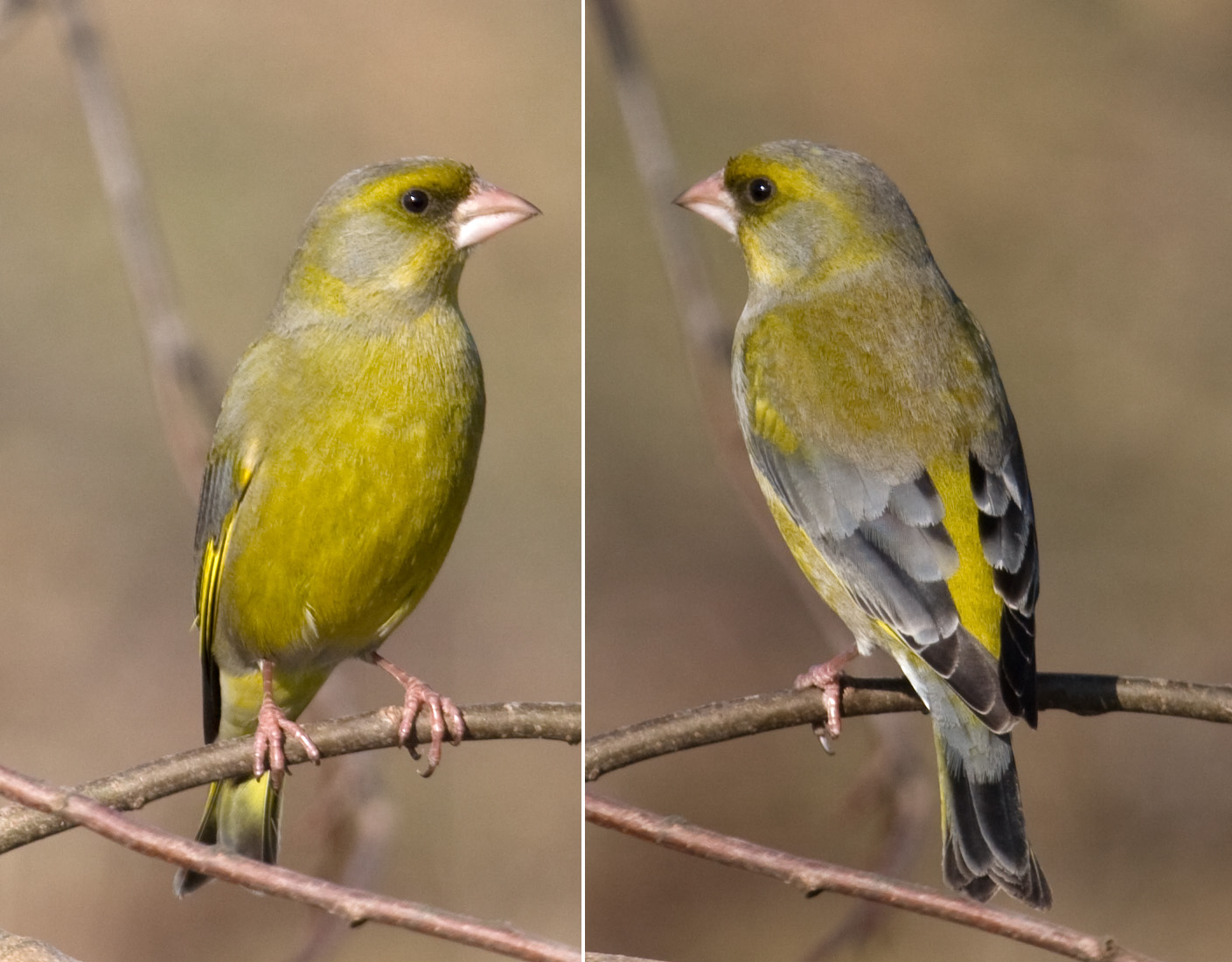 European Greenfinch